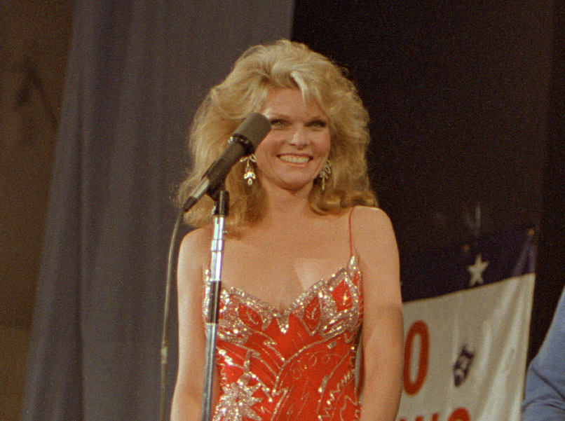 Original caption: Actress Cathy Lee Crosby entertaining U.S. Marines during a United Service Organizations tour. The Marines had been deployed in Lebanon as part of a multi-national peacekeeping force following confrontation between Israeli forces and the Palestine Liberation Organization. Exact Date Shot: Unknown .